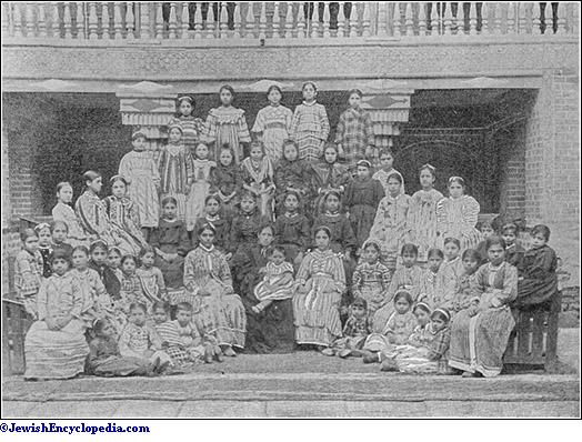 Girls' School of the Alliance Israélite Universelle, at Bagdad.